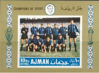 A 1968 Ajman stamp commemorating Inter Milan.